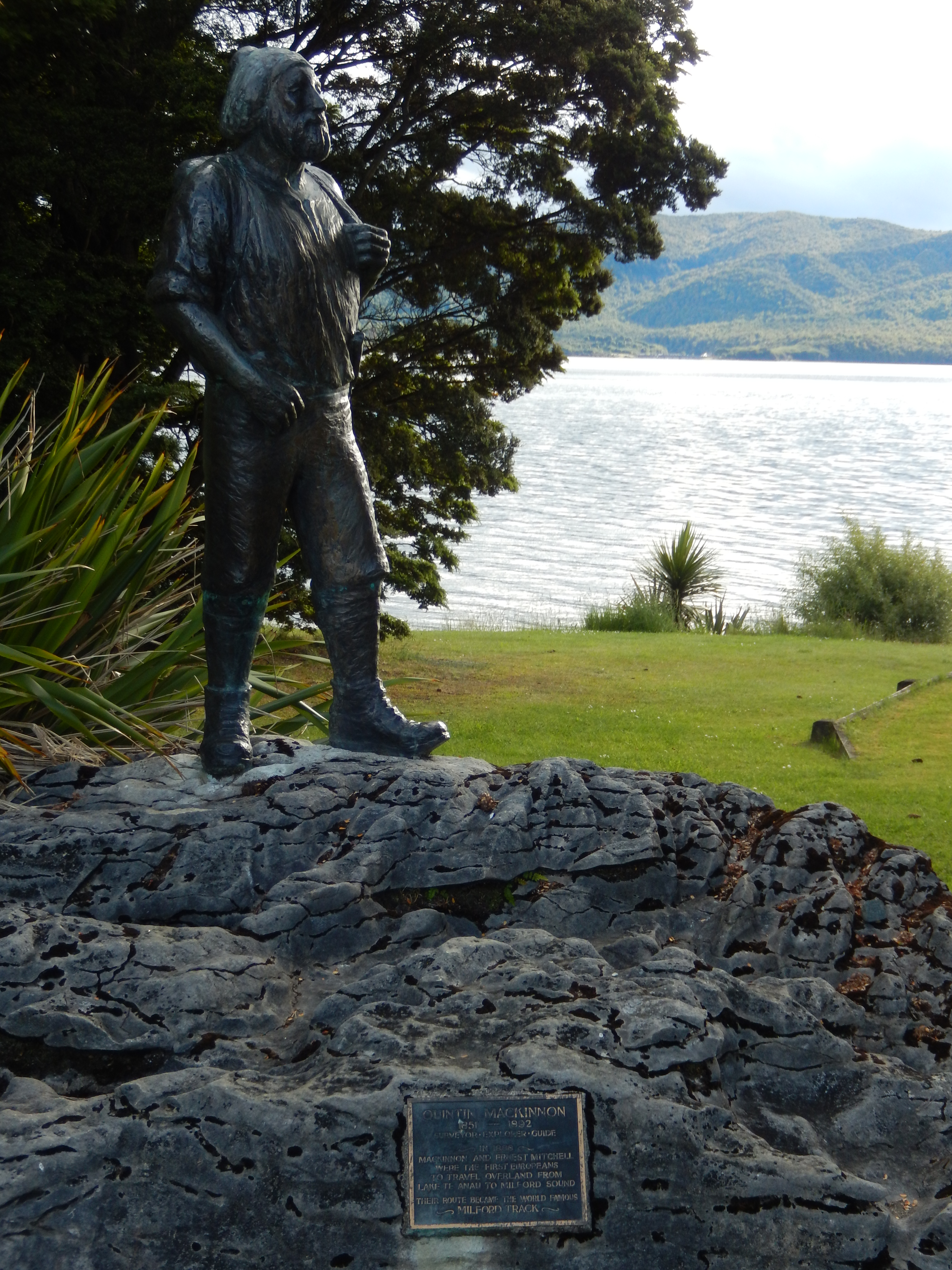 Statue to Quintin Mackinnon near the Department of Conservation office in Te Anau. Inscription on base: Quintin Mackinnon 1851-1892 Surveyor - Explorer - Guide In 1888 Mackinnon and Ernest Mitchell were the first Europeans to travel overland from Lake Te Anau to Milford Sound Their route became the world famous Milford Track